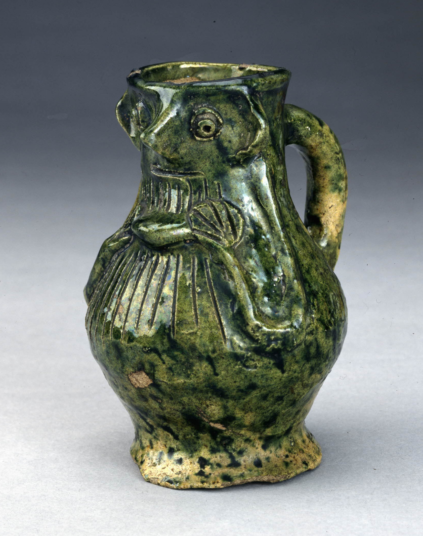 Kingston-type ware. Miniature anthropomorphic face-jug. Green-glaze. height 11.5 cm.